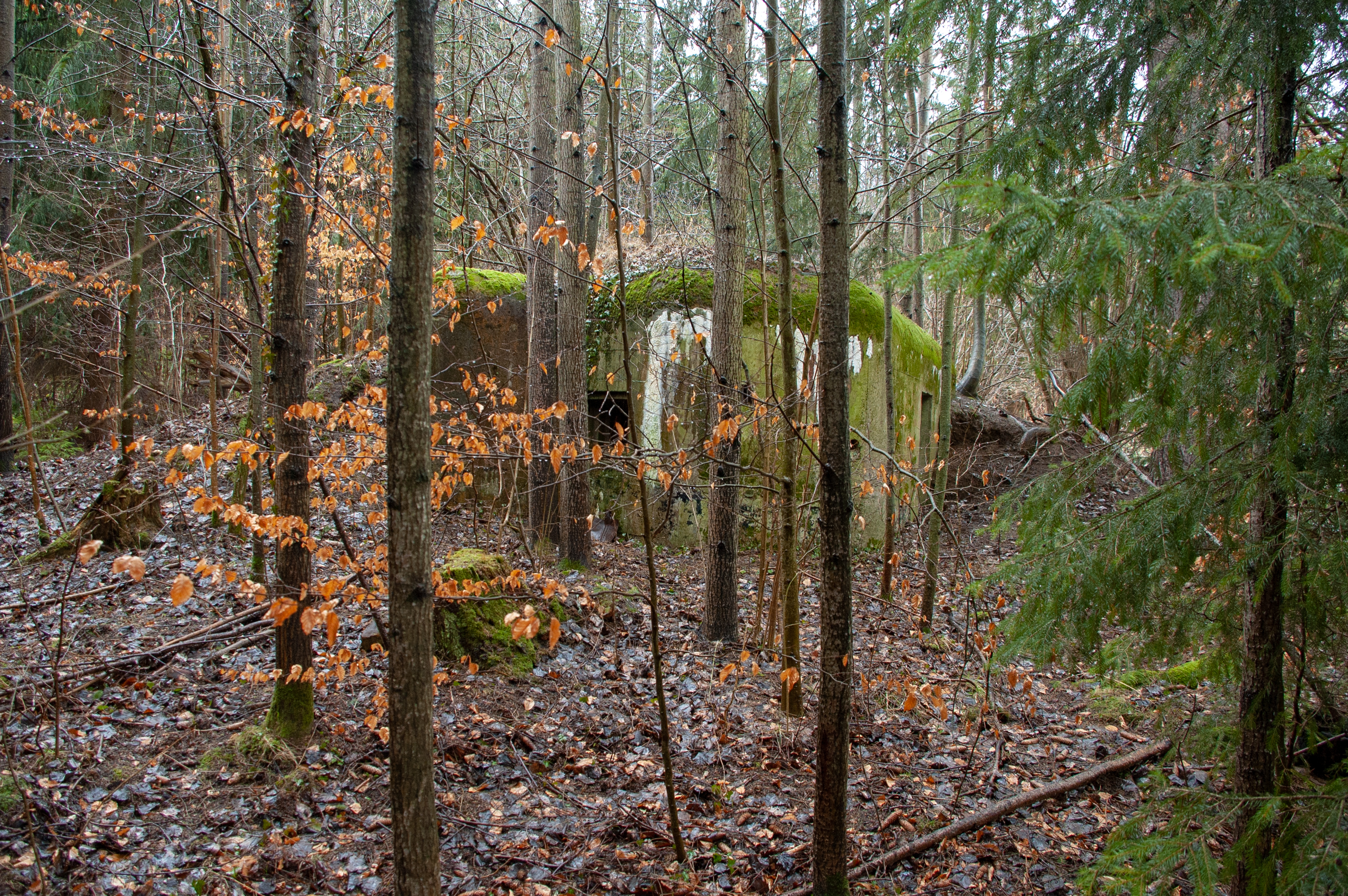 This image was created as a part of Editaton Prachatice (Czech).